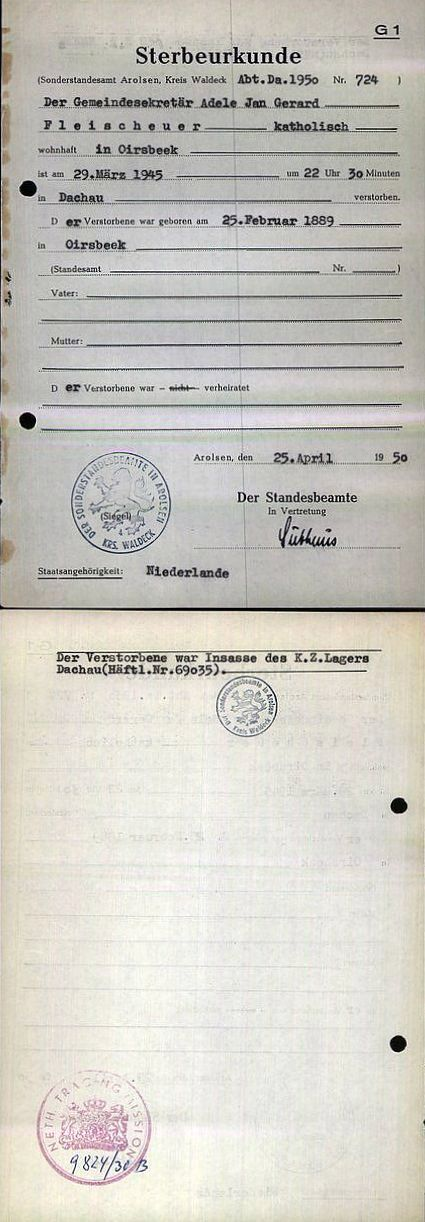 Death certificate Gerard Fleischeuer